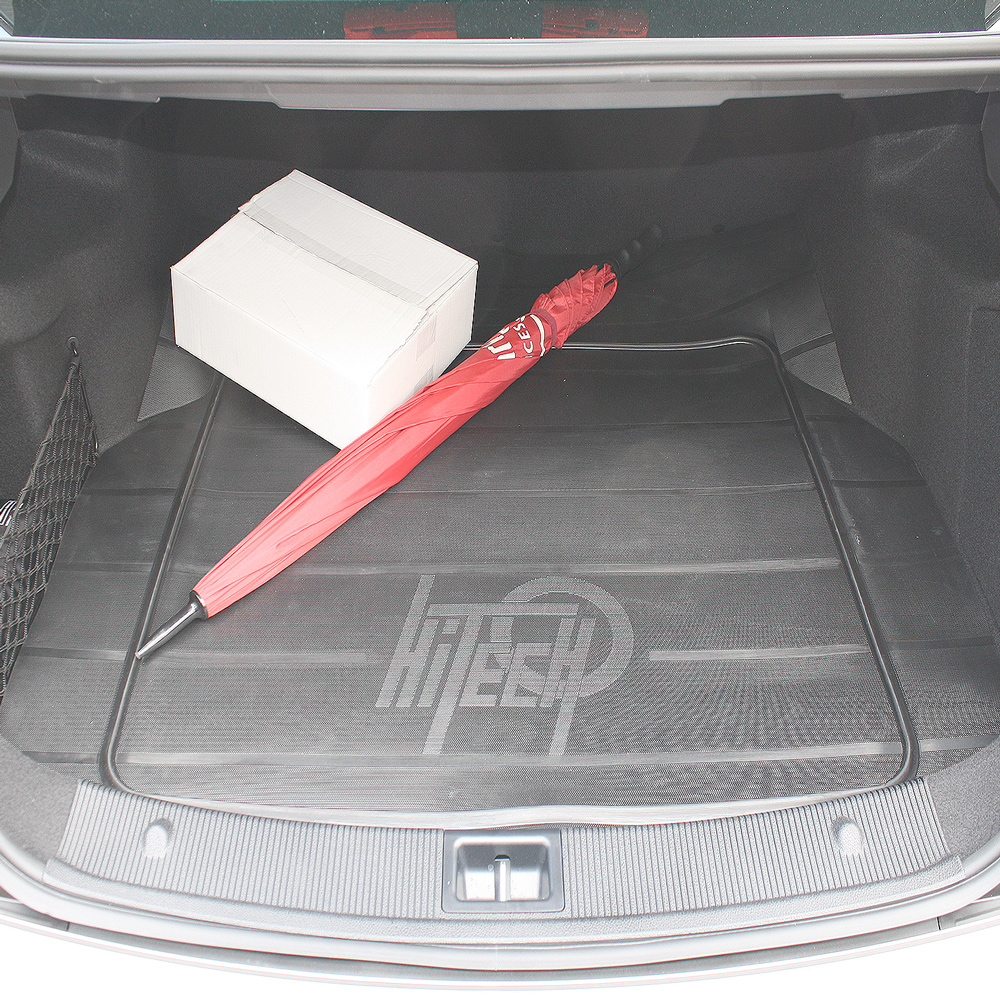 Rubber-boot-liners